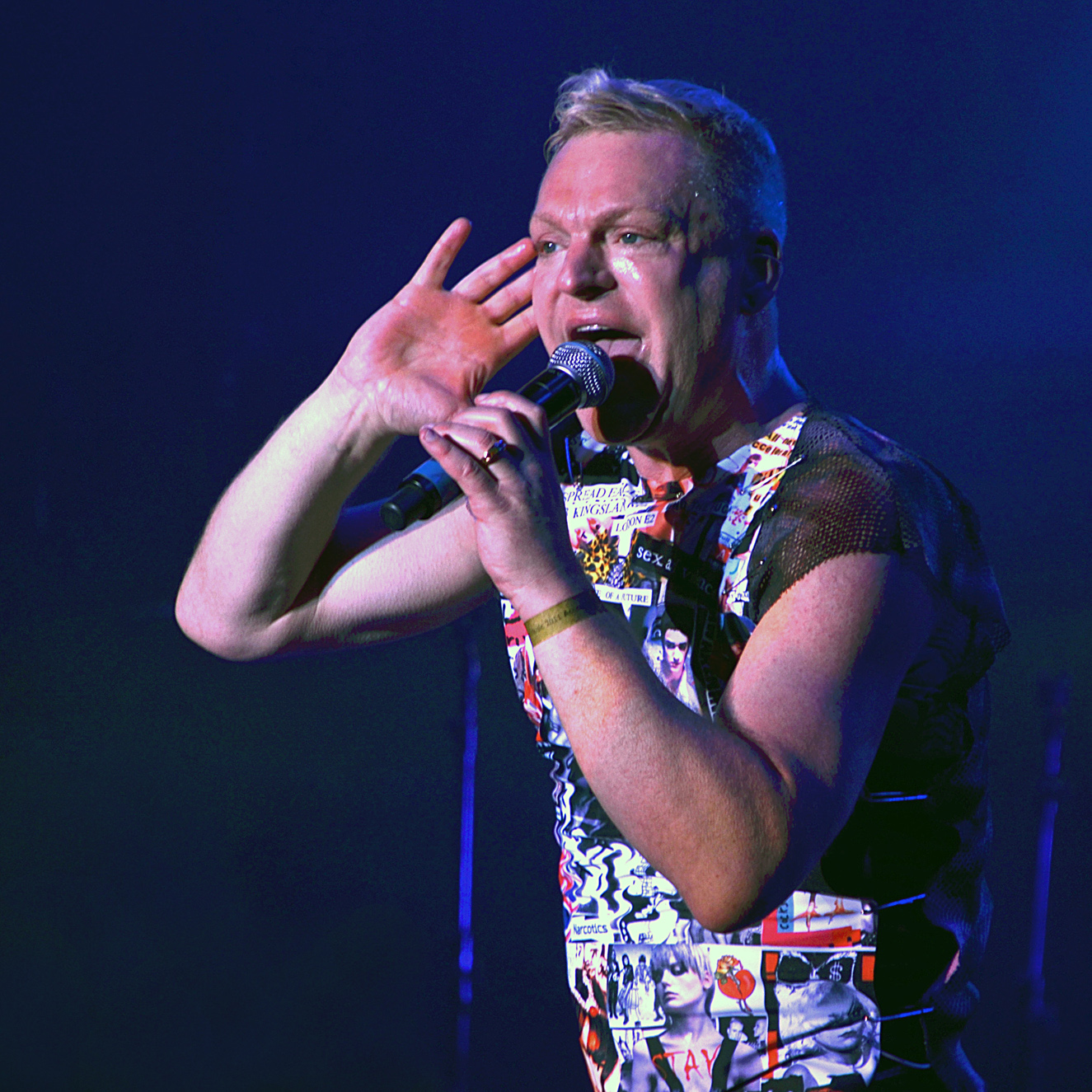 Erasure performed at Delamere Forest (near Chester), England, UK on 1 July 2011. Erasure were supported by the four-piece Foreign Office. Erasure were on form, they kicked off with "Hideaway", and just sang hit after hit, "Oh L'Amour", "Sometimes", "Victim of Love", "Love to Hate You", "Breathe", "Knocking on your Door", "Chains of Love", "Ship of Fools" and many more.